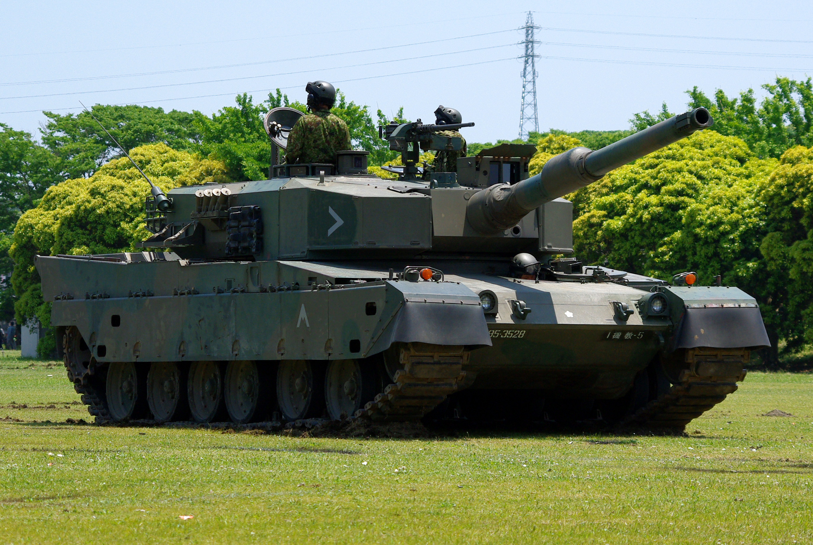 JGSDF Type90 Tank,1st Armored Training Unit/Eastern Army Combined Brigade.Taken by Los688,in Camp Takeyama,Japan,at 27-May-2012.PD-self ja:90式戦車 2012年05月27日、東部方面混成団第1機甲教育隊 武山駐屯地で撮影。